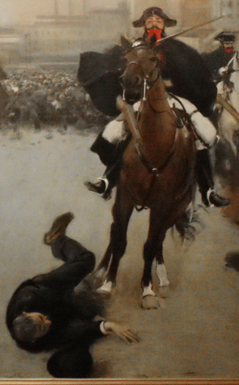 Ramon Casas i Carbó (1866–1932), detail from La Càrrega (The Charge) or Barcelona 1902. Despite the title and the 1903 signature, the piece was executed 1899.